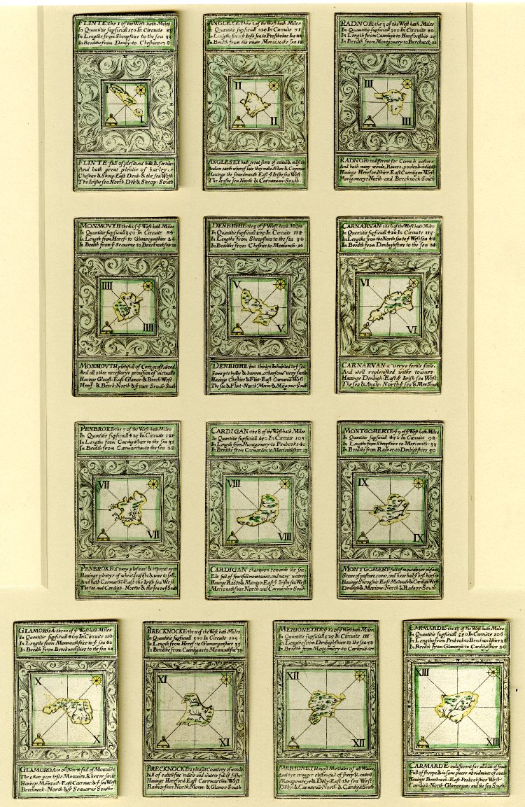 Cards from a pack illustrating counties of England and Wales. The maps were largely copied from an atlas by Christopher Saxton.